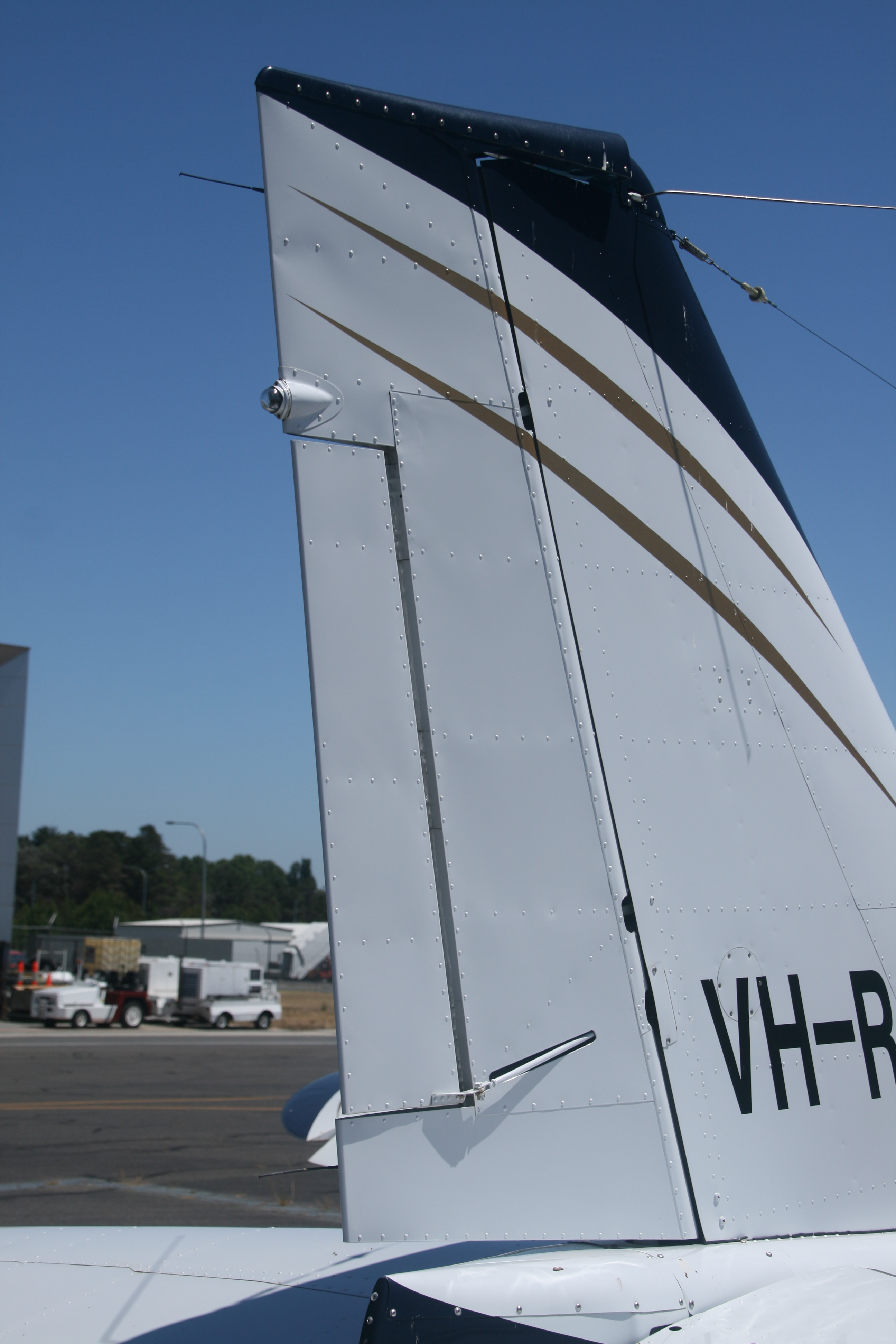 The rudder and its corresponding trim tab on the back of a light aircraft's vertical stabiliser (also known as the tail fin). Digital image taken by YSSYguy on 11 February 2014 for use in the rudder article. YSSYguy (talk) 02:12, 14 February 2014 (UTC)